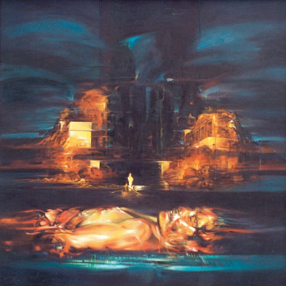 1 Painting Estigia (Styx) by Antonio García Vega[1]